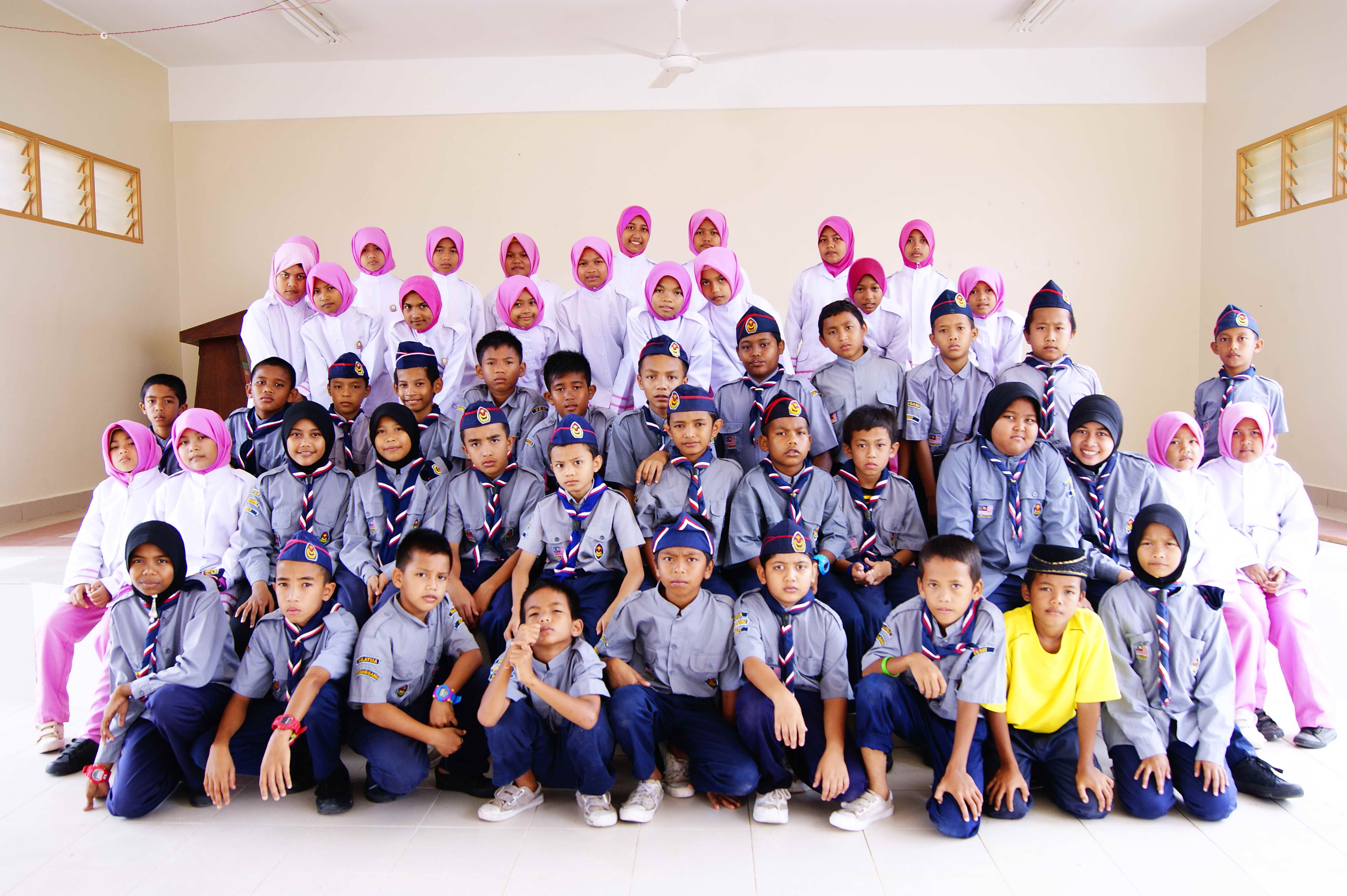 Sekolah Kebangsaan Felda Selasih, 2011